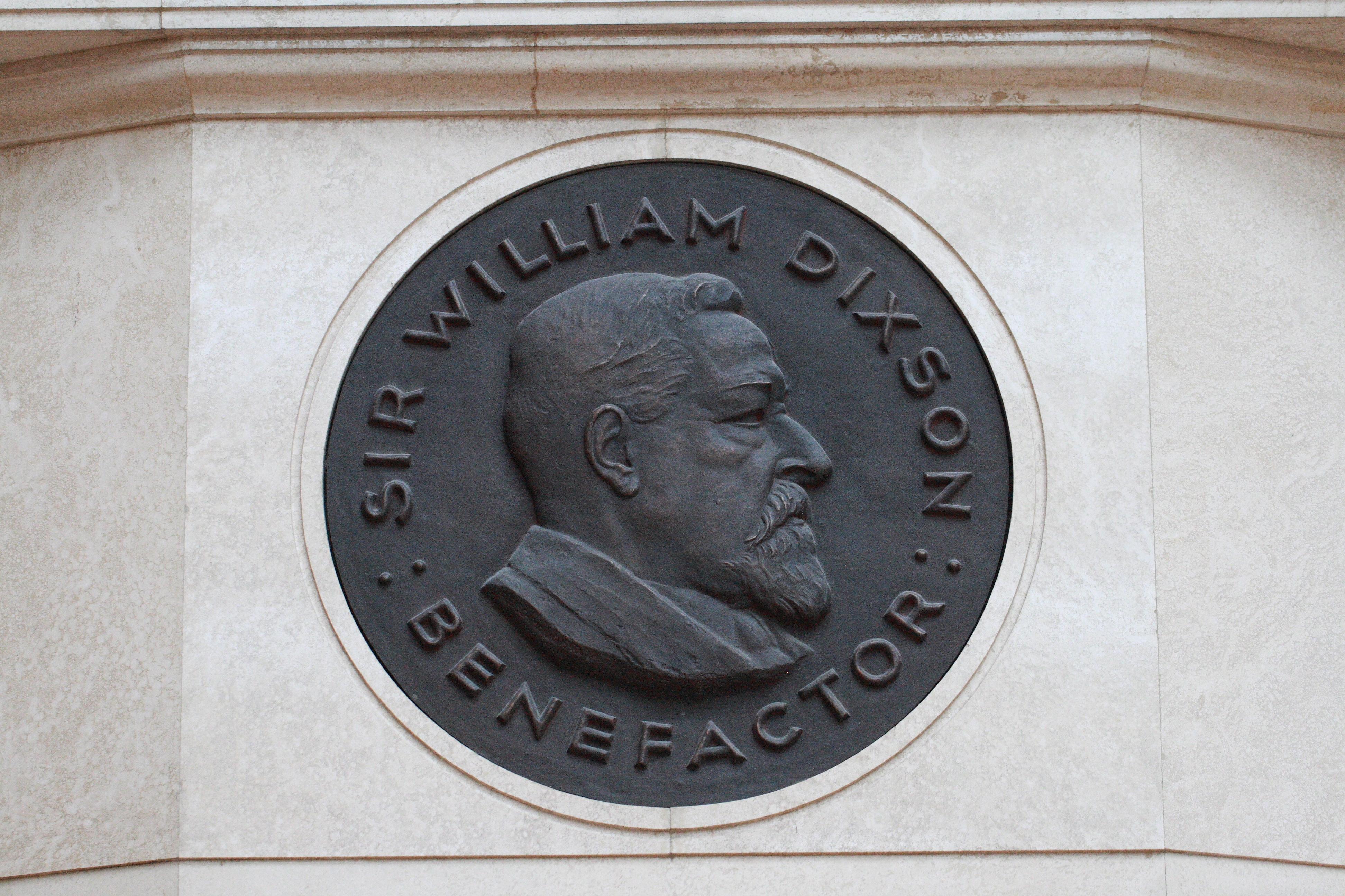 Detail of the Mitchell Library at the State Library of New South Wales.